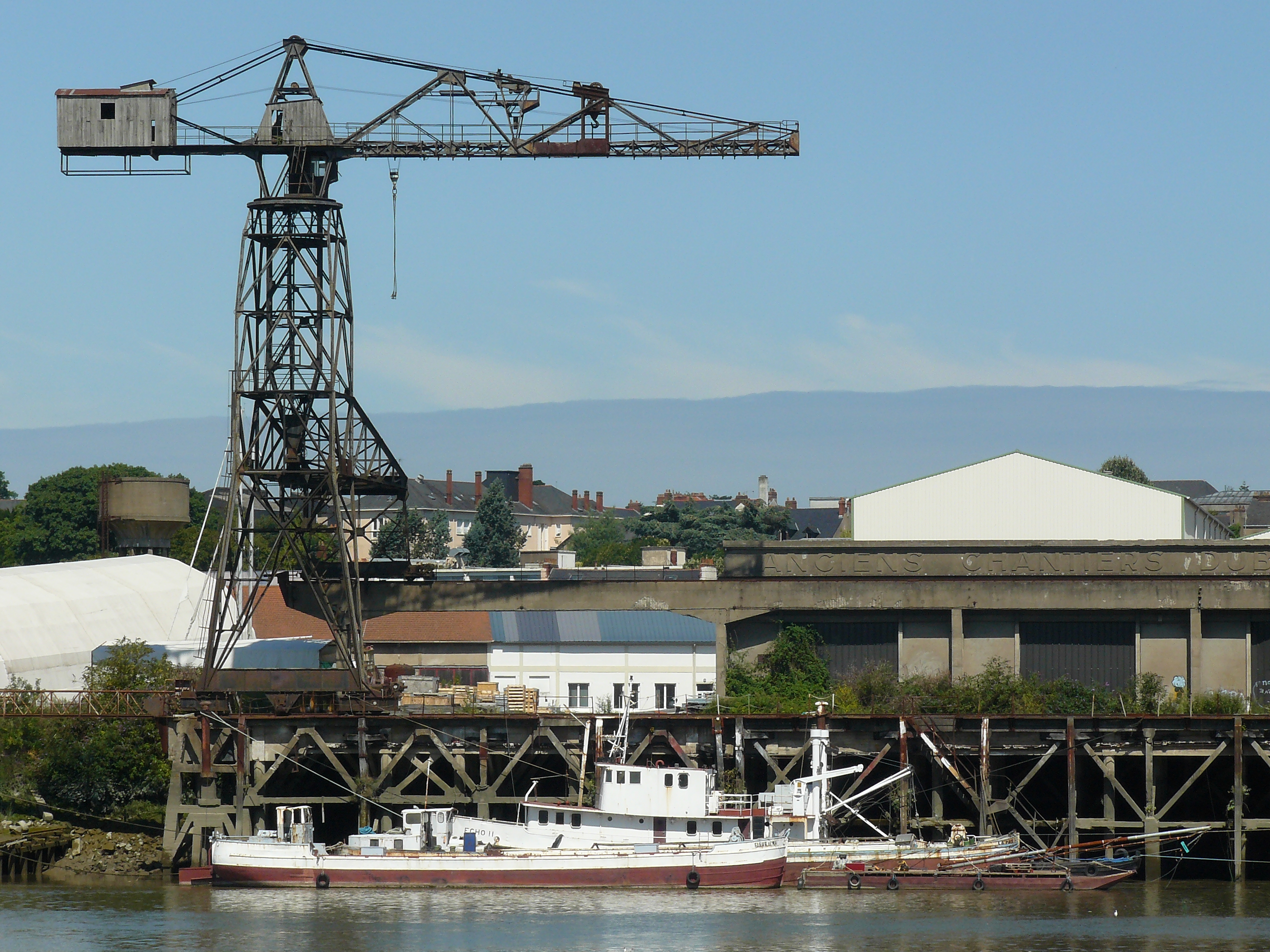 Old shipbuilding in Chantenay, Nantes, France